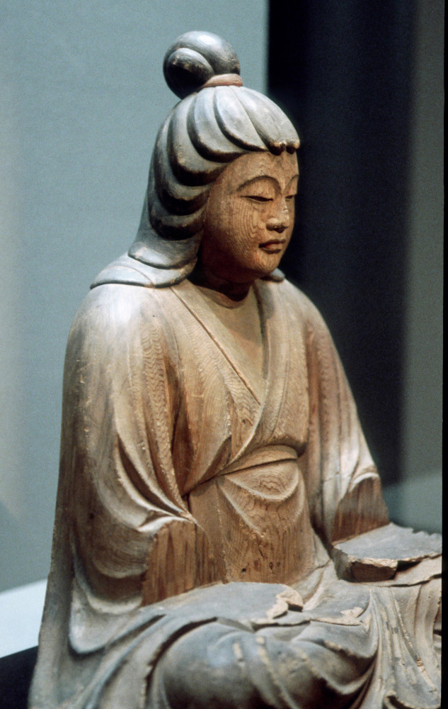 Empress OKINAGA-TARASI as a deity, Wood, ACE 1326, in AKA-ANA HATIMANGU Shrine, Shimane prefecture, Japan